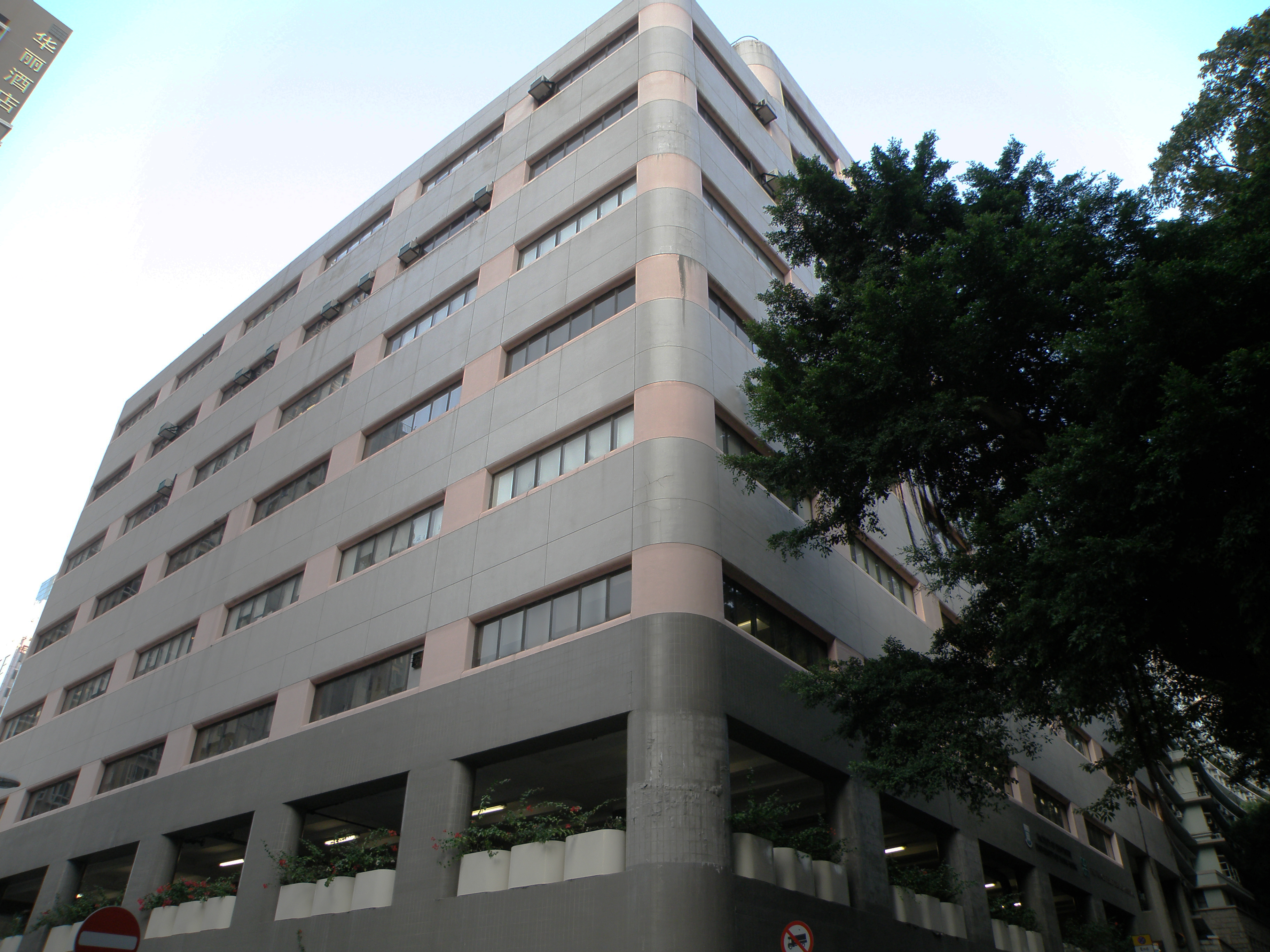 The Prince Philip Dental Hospital in Sai Ying Pun, Hong Kong.